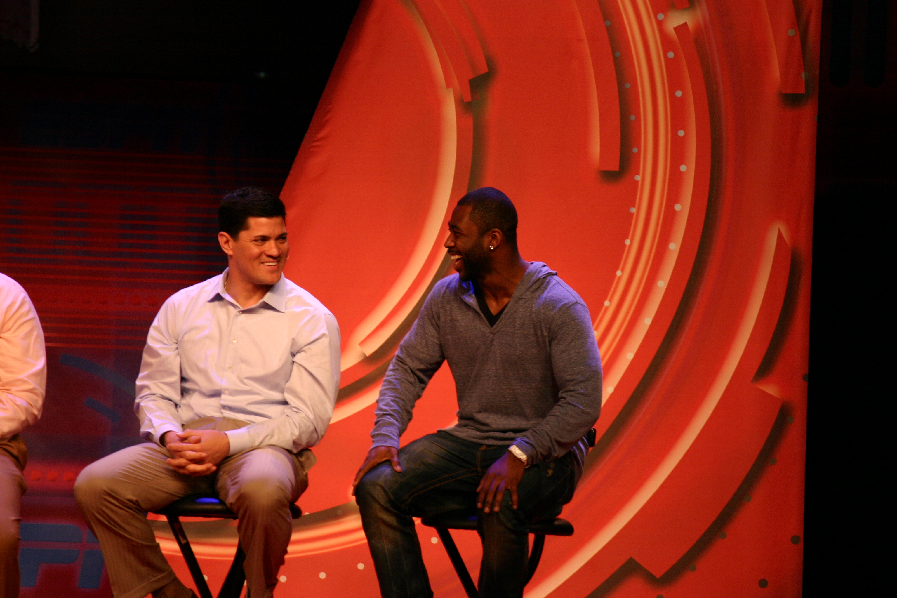 Darelle Revis and Tedy Bruschi at Inside ESPN NFL Flive in the Premiere Theater during ESPN The Weekend, February 26, 2010